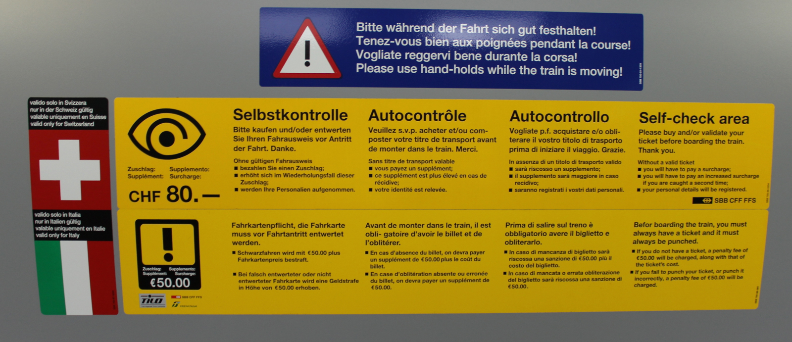 Self-check area signs on a SBB CFF FFS RABe 524.